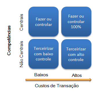 Matriz simplificada para decisão de comprar ou fazer